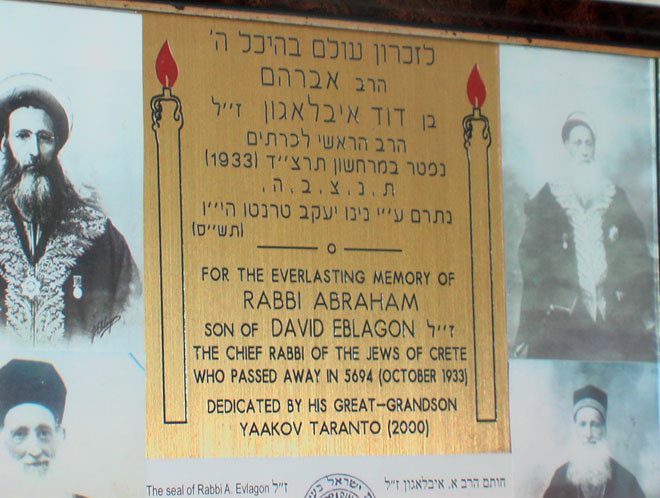 Chanias'_Synagogue. Credit: Courtesy of Arie Darzi to memorialize the Jewish community in Greece.